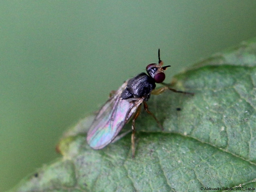 Elachiptera tuberculifera